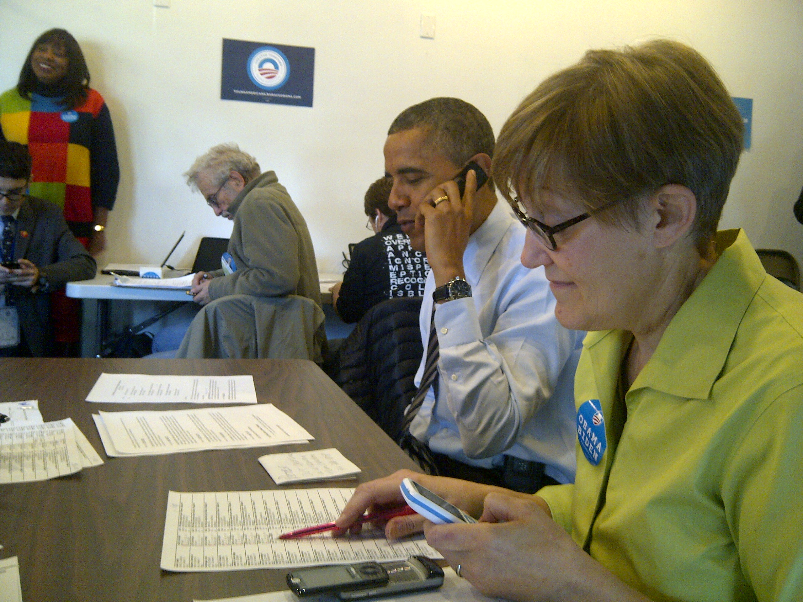 Barack Obama and volunteers at the Hyde Park, Chicago Obama campaign office make phone calls on Election Day 2012